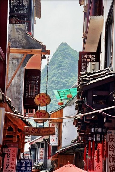 Yangshuo was the most touristy town we went to in China, and that includes Beijing. It was the only place where we saw a lot of backpackers, and people spoke English! Hello, postcard?